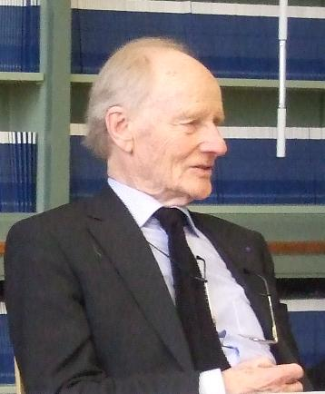 Robert Spaemann, a German philosopher. Taken at "Meisterkurs" with Spaemann at Ludwig Maximilian University of Munich